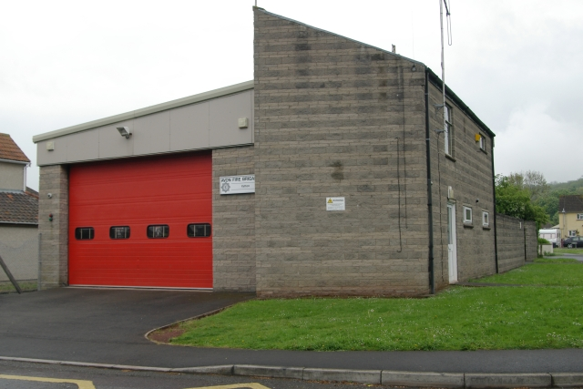 Yatton Fire Station, Rock Road, Yatton, Bristol is station number 19 of Avon Fire & Rescue Service